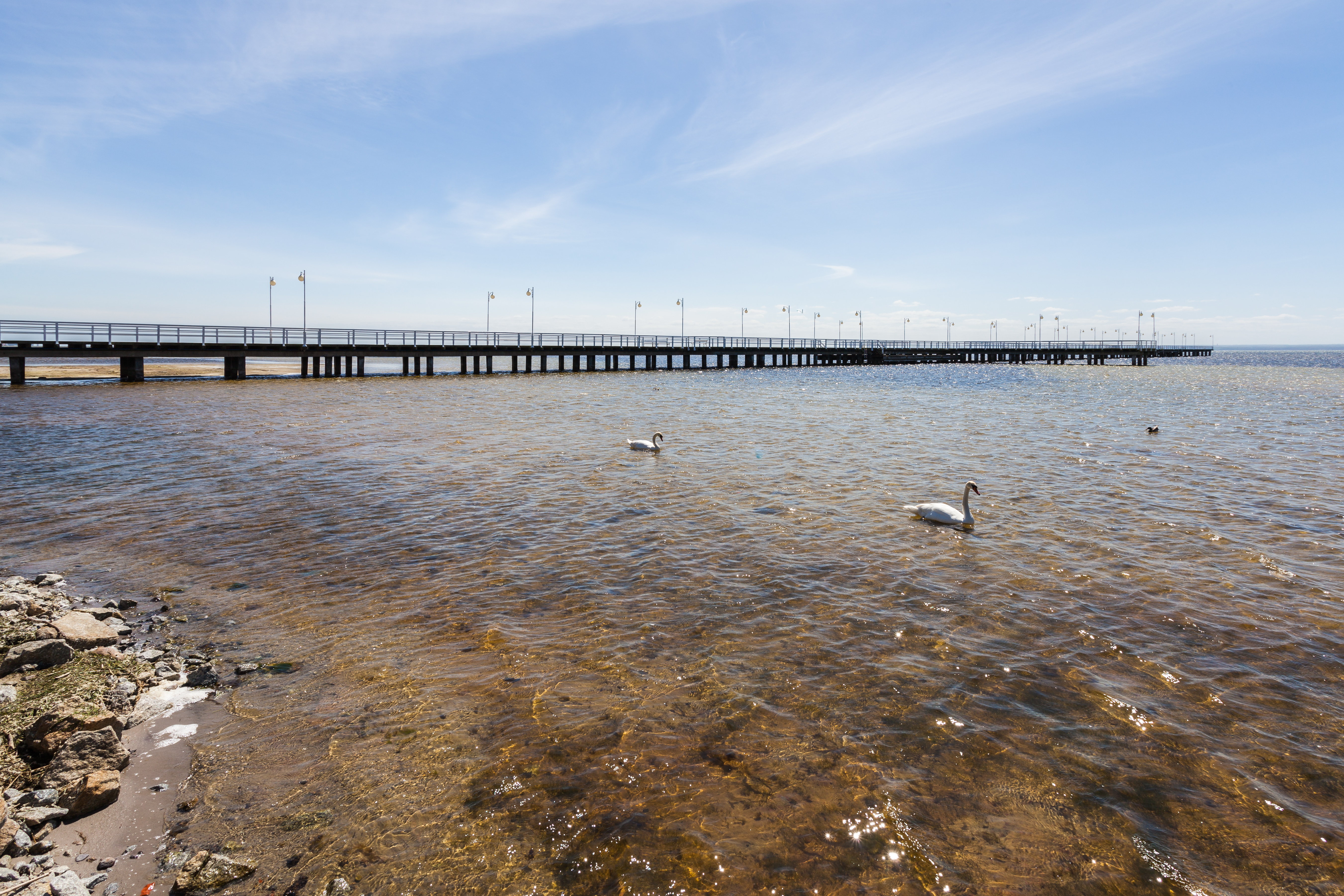 Promenade pier of Jurata, Hel Peninsula, Poland